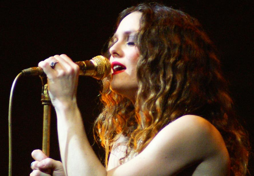 Vanessa Paradis live at Châteauroux (France).Vanessa Paradis @ Tarmac (Châteauroux)